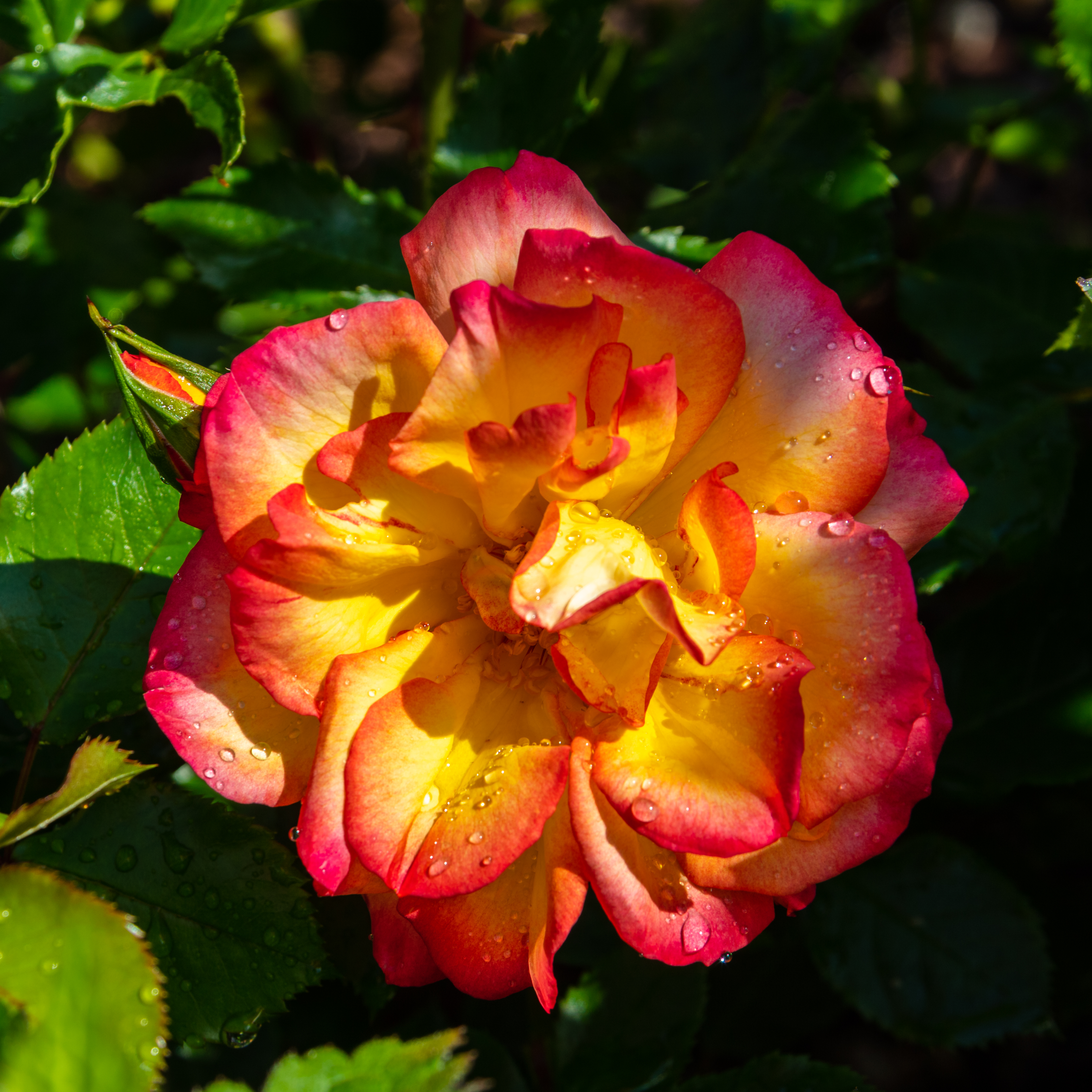 'Bonanza' Rose, Bad Wörishofen, Germany